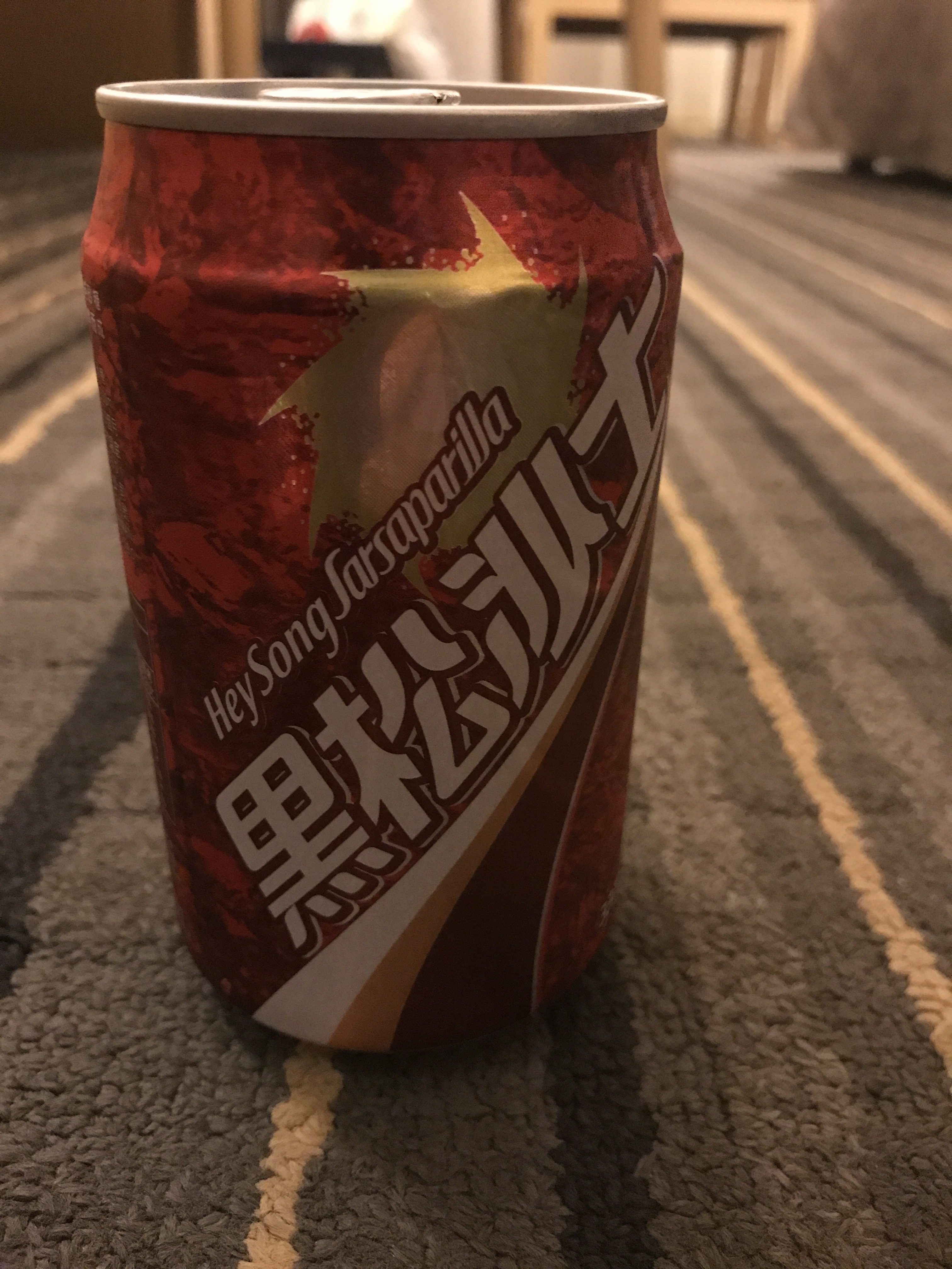 Hey Song Sarsaparilla